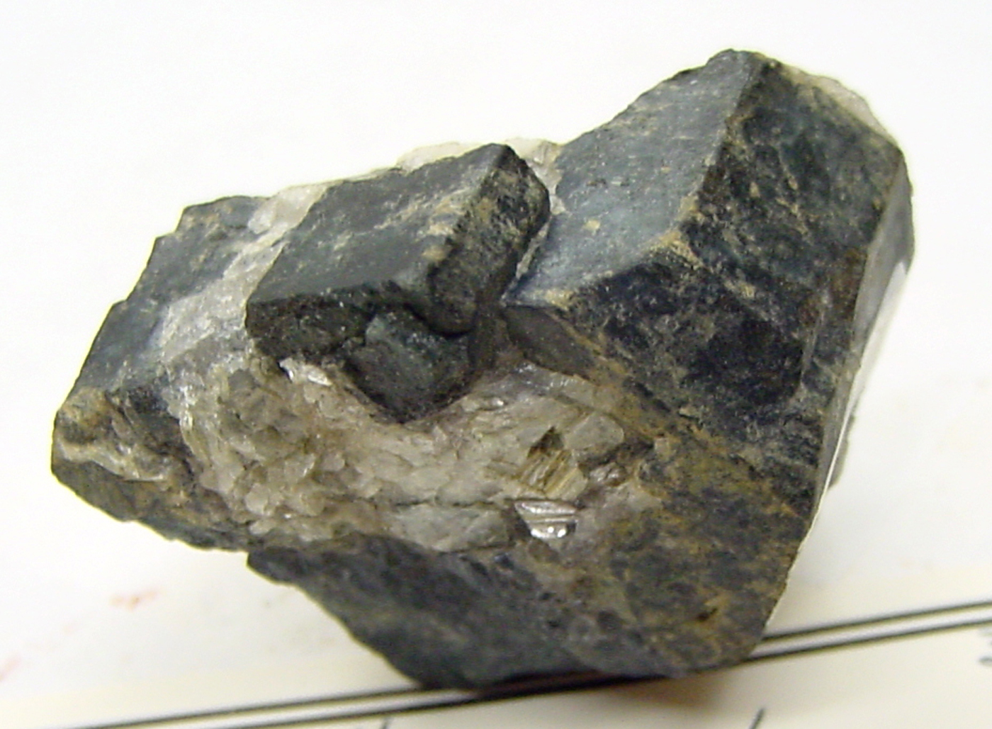 Triphylite, collected from G. M. Baker from Chandlers Hill, New Hampshire - Mineral collection of Brigham Young University Department of Geology, Provo, Utah - BYU index 9-3104b